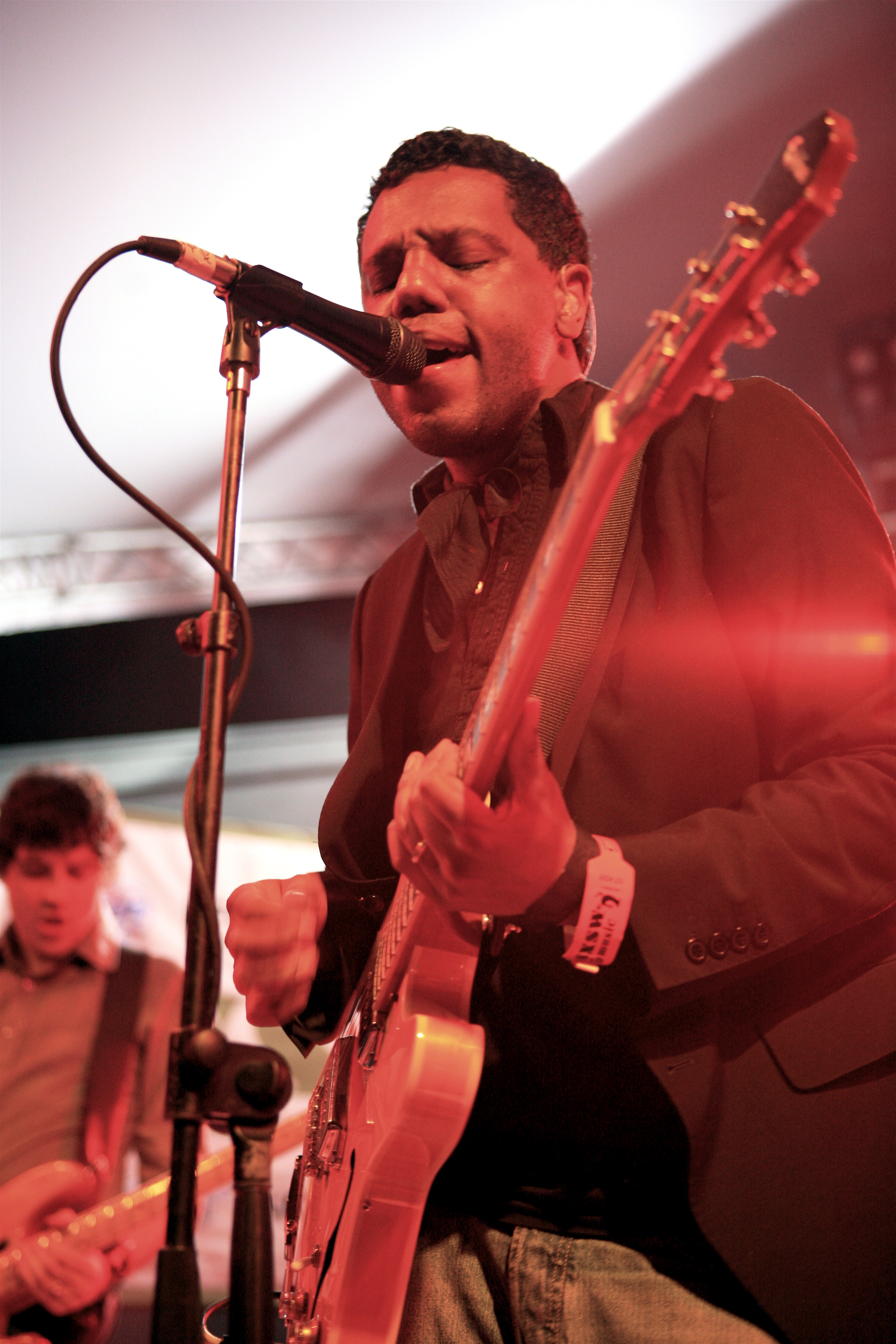 The Dears photographed by Kris Krug.